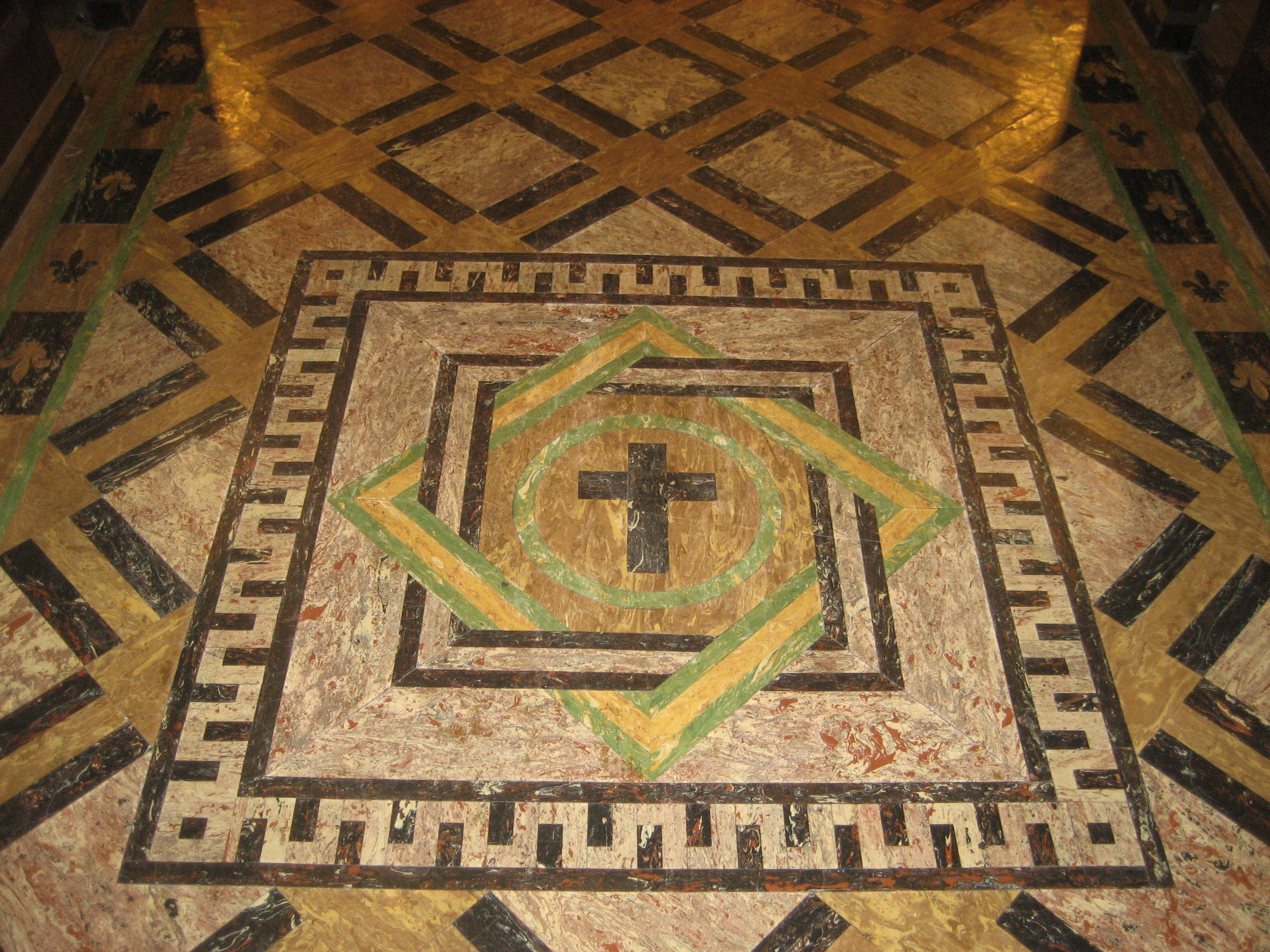 Our Lady of Good Council Church, New Orleans. Detail of interior floor.